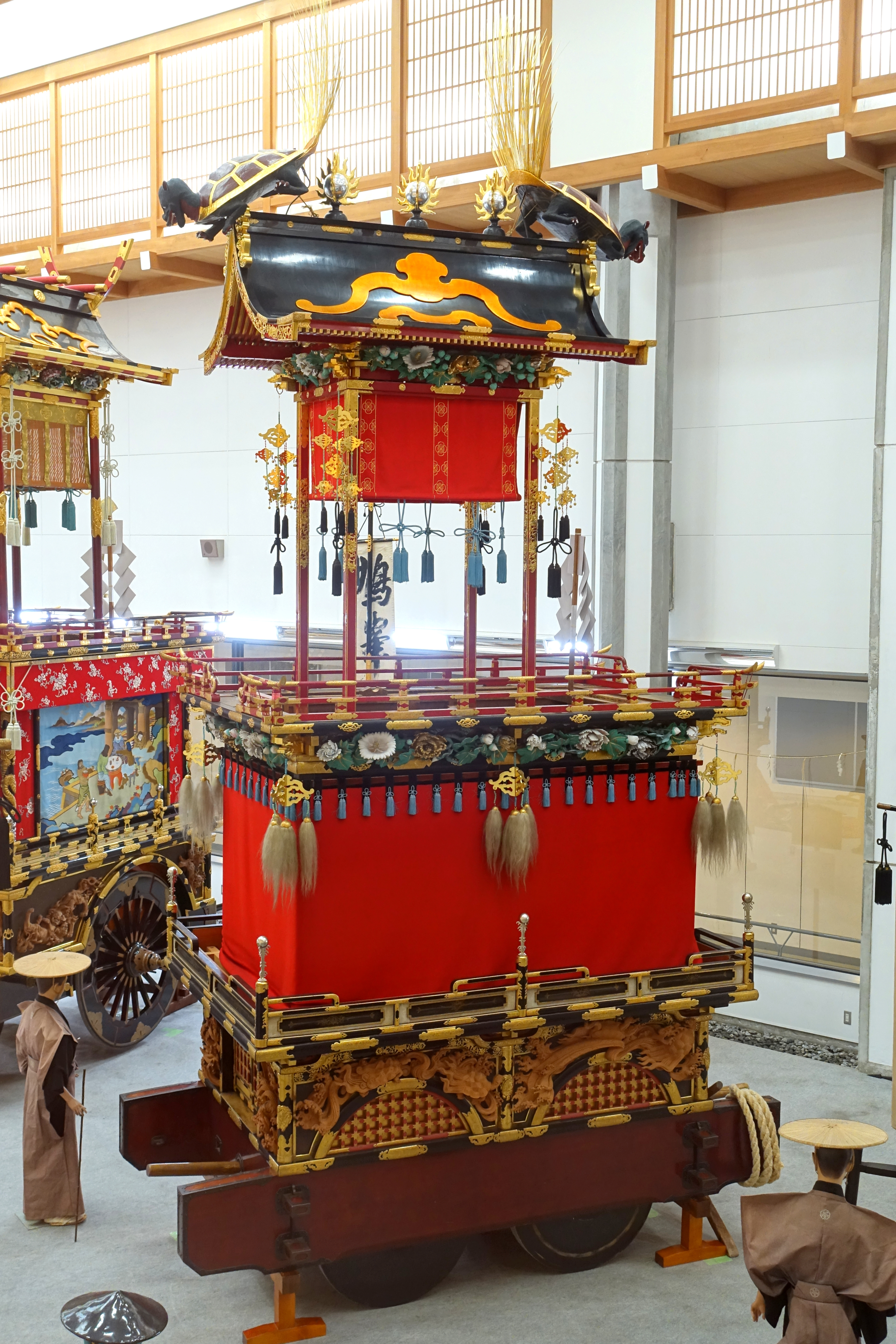 Takayama Festival Float Exhibition Hall (高山祭屋台会館) - Takayama, Gifu, Japan.